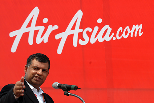 Tony Fernandes at Airasia fair